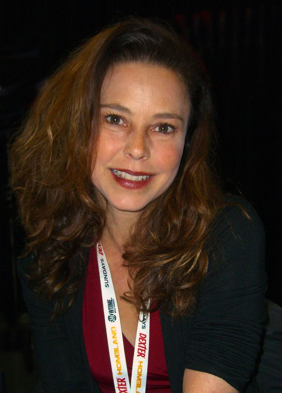 Actress Dana Barron on Day 2 of the 2012 New York Comic Con, Friday October 12, 2012 at the Jacob K. Javits Convention Center in Manhattan. This photo was created by Luigi Novi. It is not in the public domain, and use of this file outside of the licensing terms is a copyright violation.